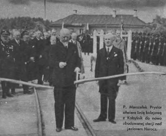 Aleksander Prystor - as a Sejm's speaker, opens the railway line.